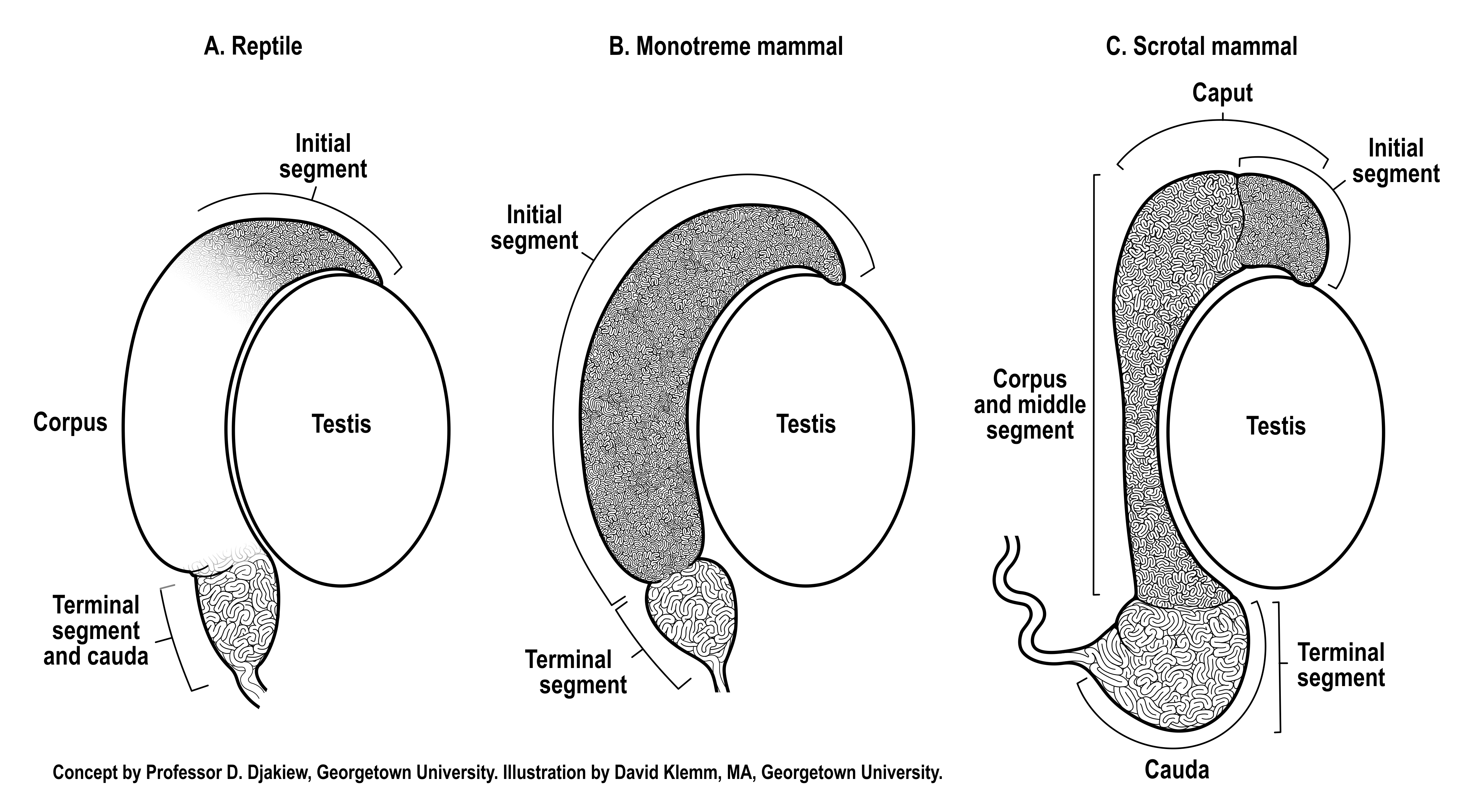 Drawing of epididymis of reptile, monotreme and scrotal mammals